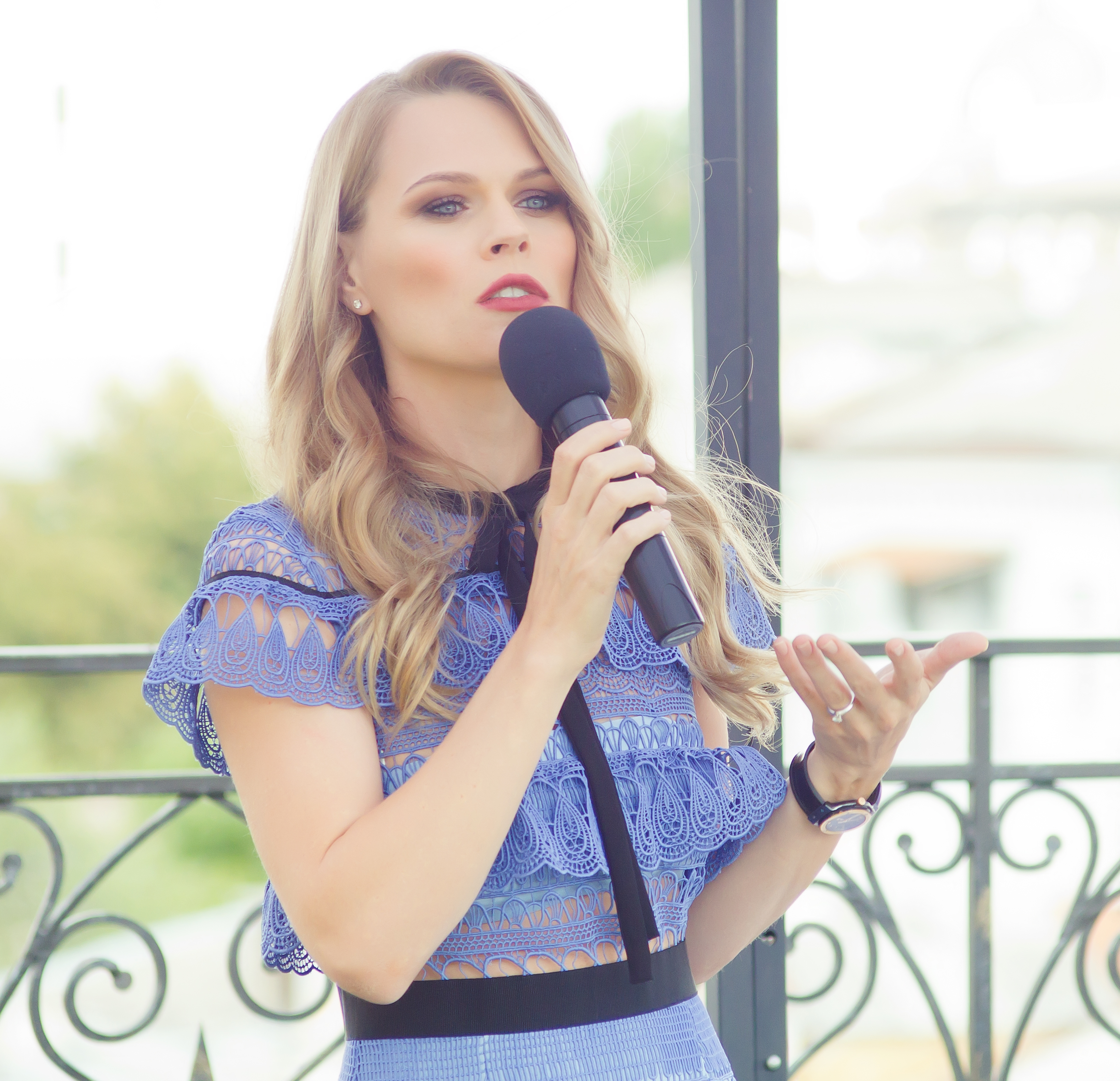 Olga Freimut, presentation of new TV project. Podil, Kyiv.